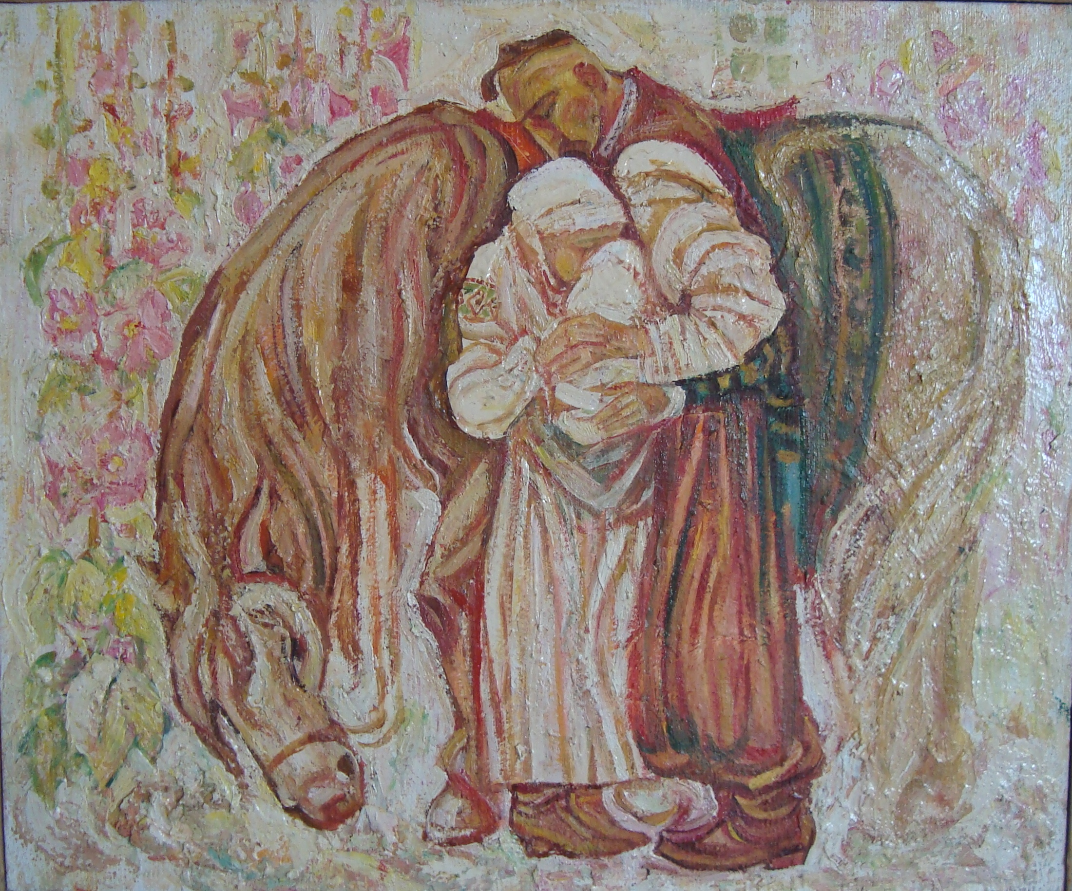 Farewell of a Cossack. - oil, canvas. - 60x80 cm.